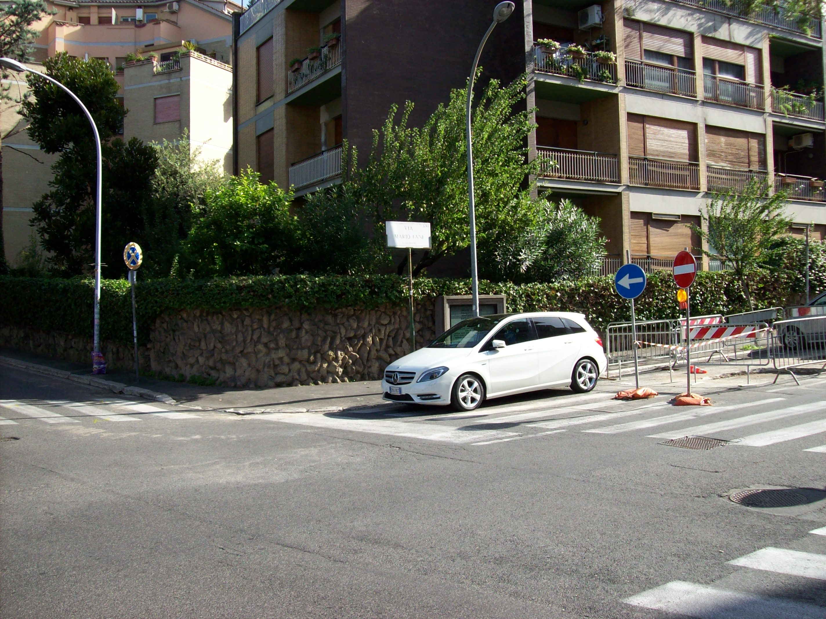 Via Mario Fani in Rome; on 16 March 1978 a unit of the Red Brigades (Italian: Brigate Rosse) assaulted the convoy transporting Aldo Moro and kidnapped him, murdering in cold blood his five bodyguards.